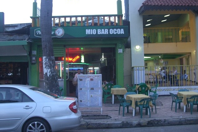 Town of Ocoa